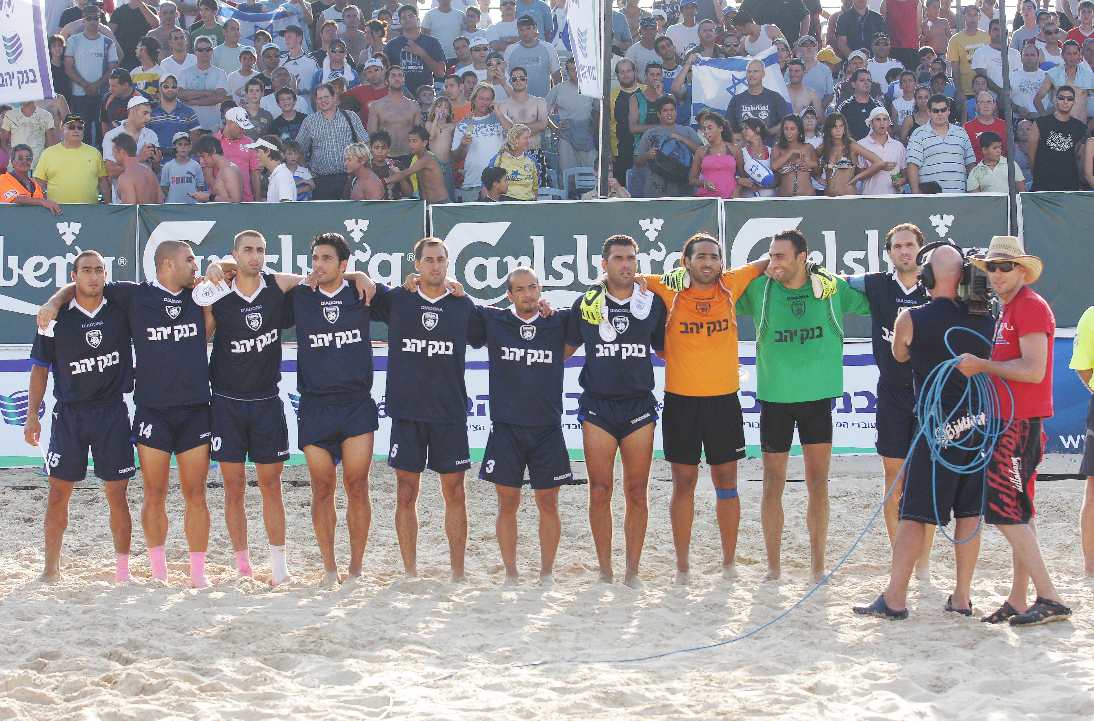 Israeli beach soccer team at the Challenge Cup 2008, at the Poleg beach in Netanya.